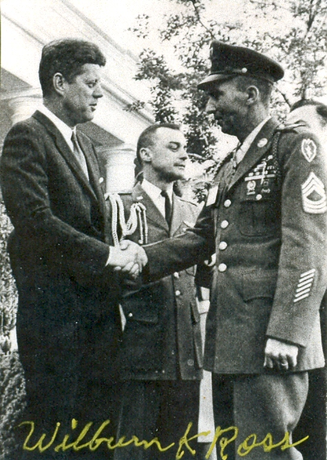 U.S. President John F. Kennedy congratulates Medal of Honor winner Wilburn K. Ross.